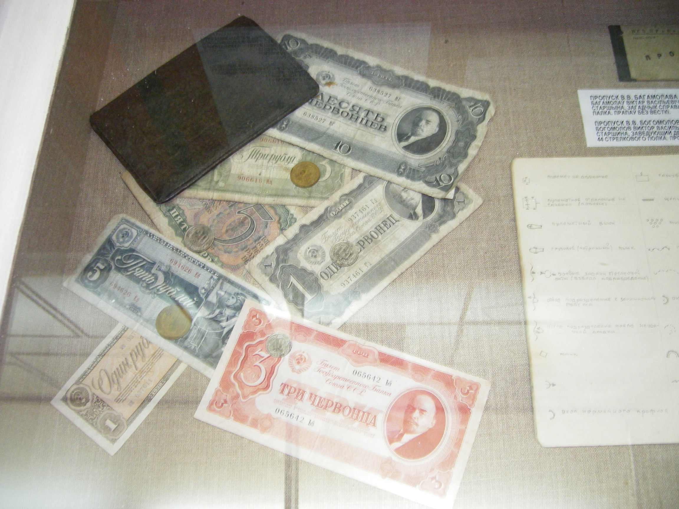 Pre-1941 USSR coins and banknotes in Brest Fortress Museum